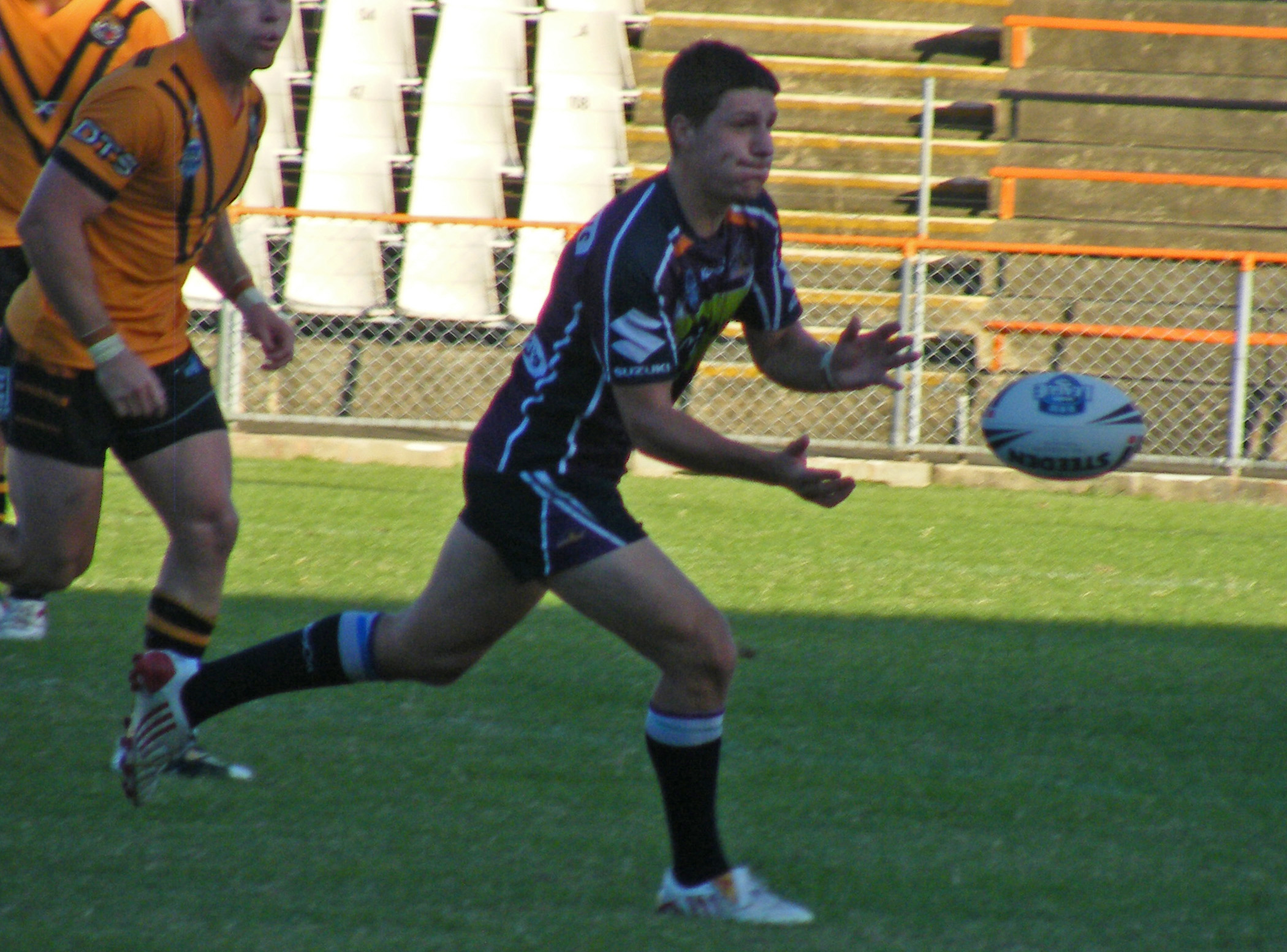 Gareth Widdop of the Melbourne Storm RLFC.